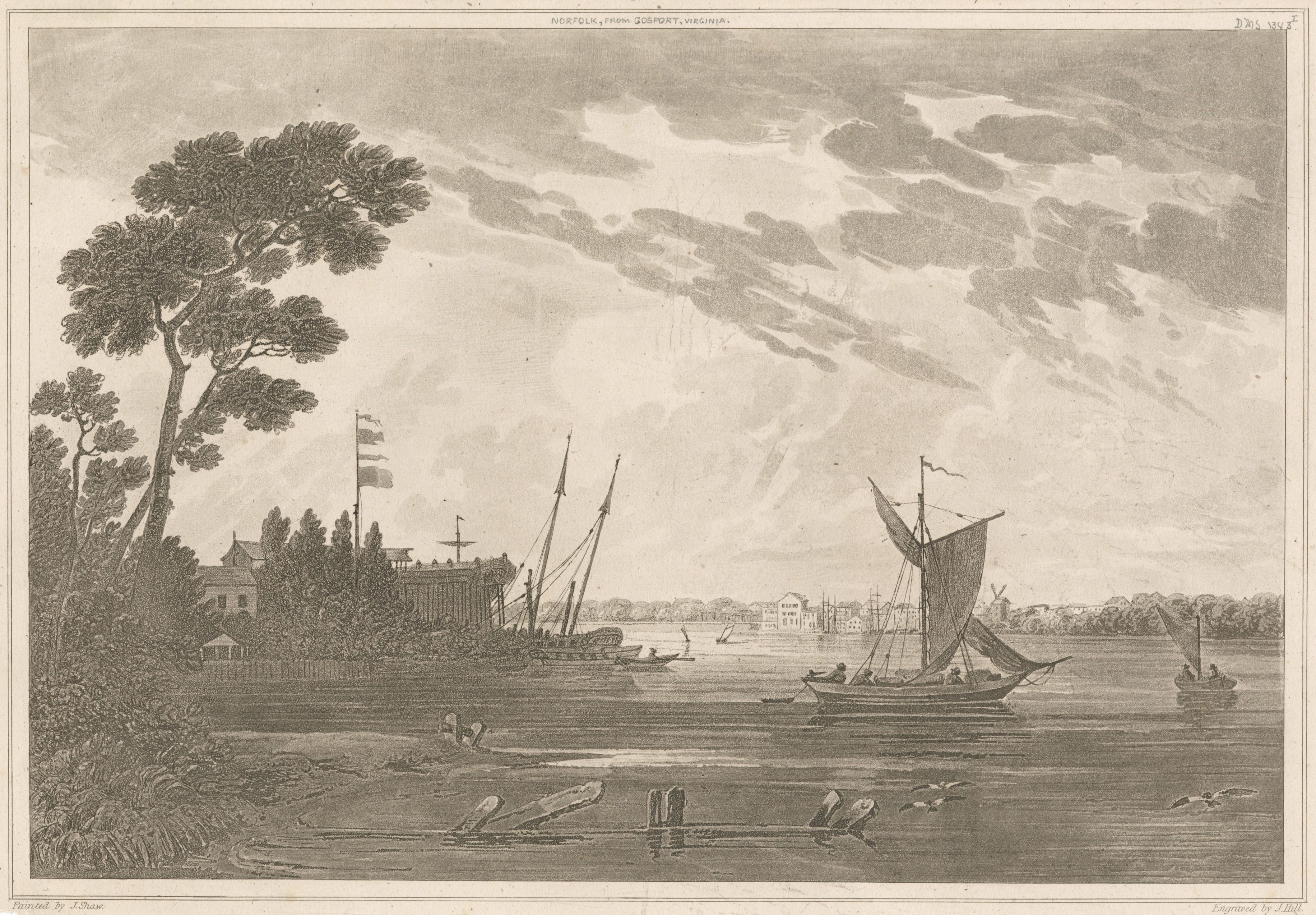 Volume numbers given here refer to the original volume numbers of the publication, not of Lossing's publication. Title from title page of extra-illustrated volume. EM6395